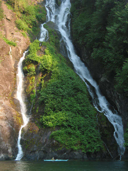 Erin McKittrick, own work